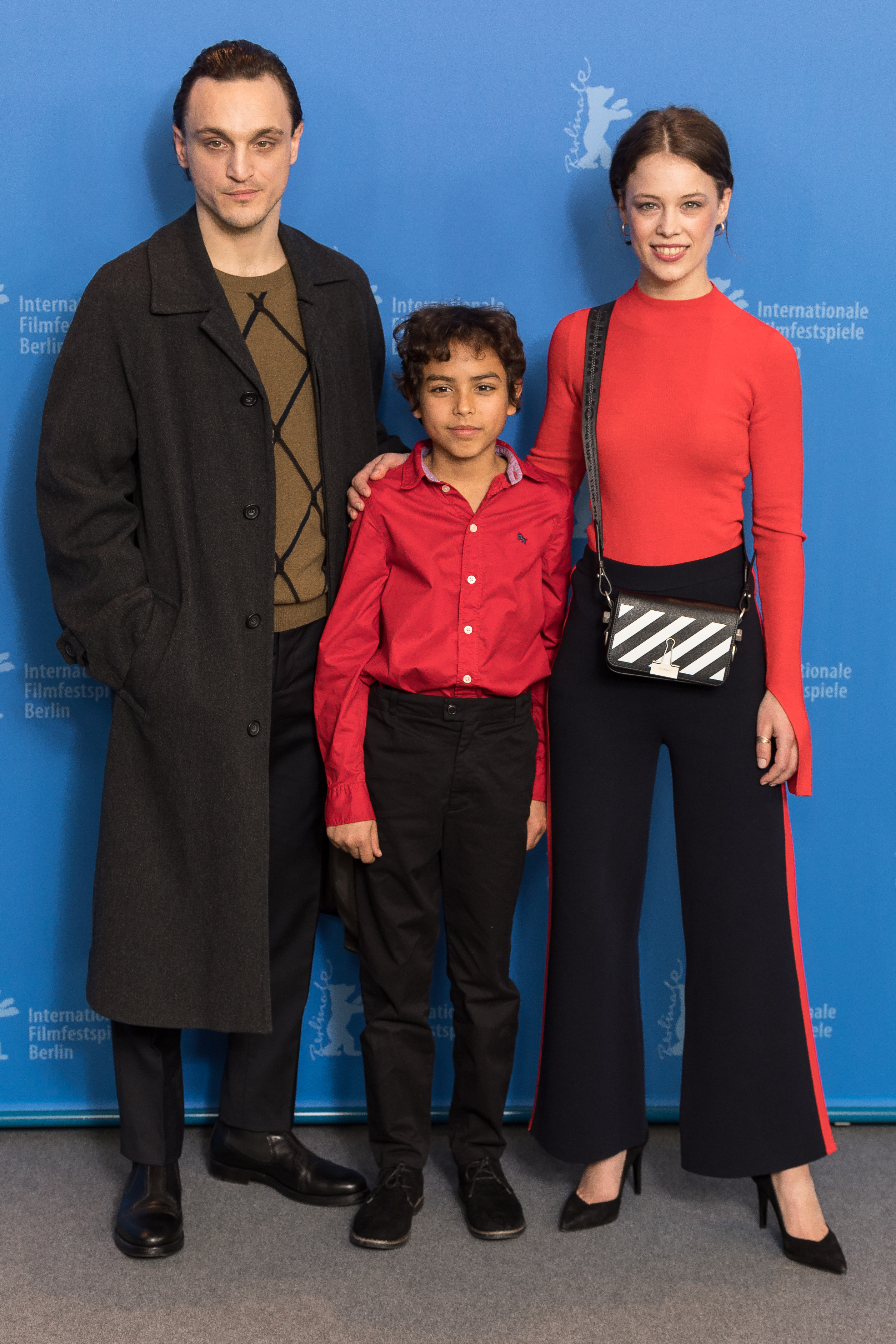 Franz Rogowski, Lilien Batman and Paula Beer at the photo call for the movie "Transit" at the Berlinale 2018